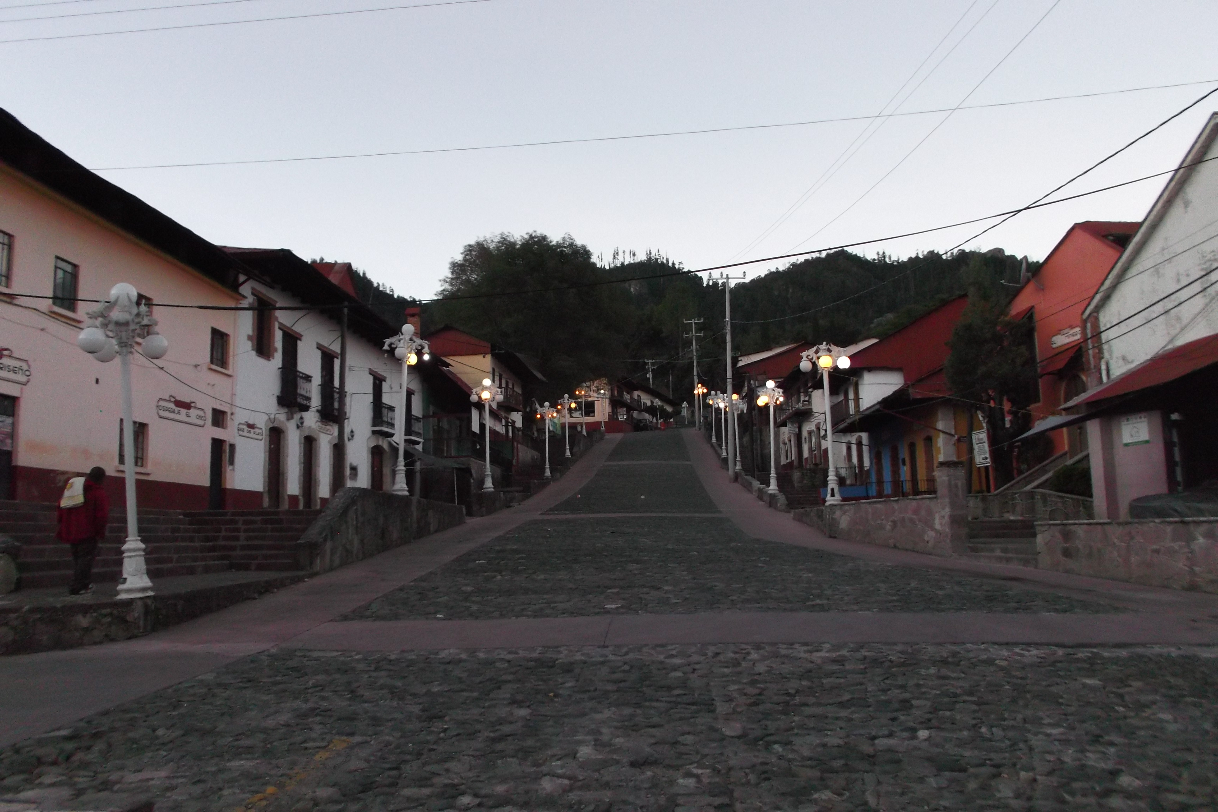 Main Street from Mineral del Chico, taken from town square